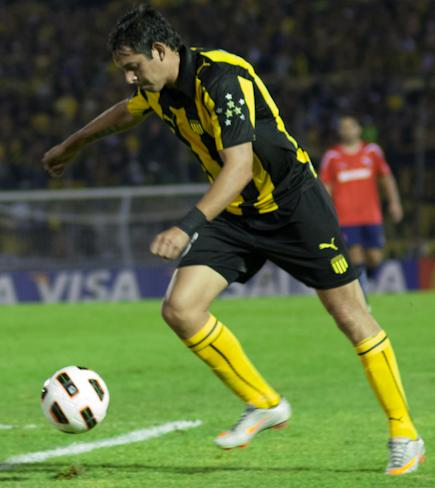 Matias Mier playing for Peñarol